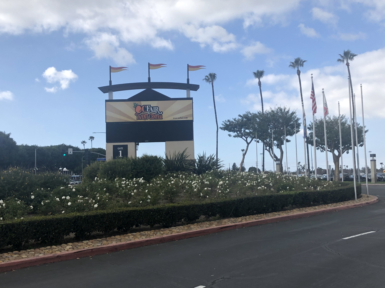 OC Fairgrounds, Costa Mesa, CA-92626